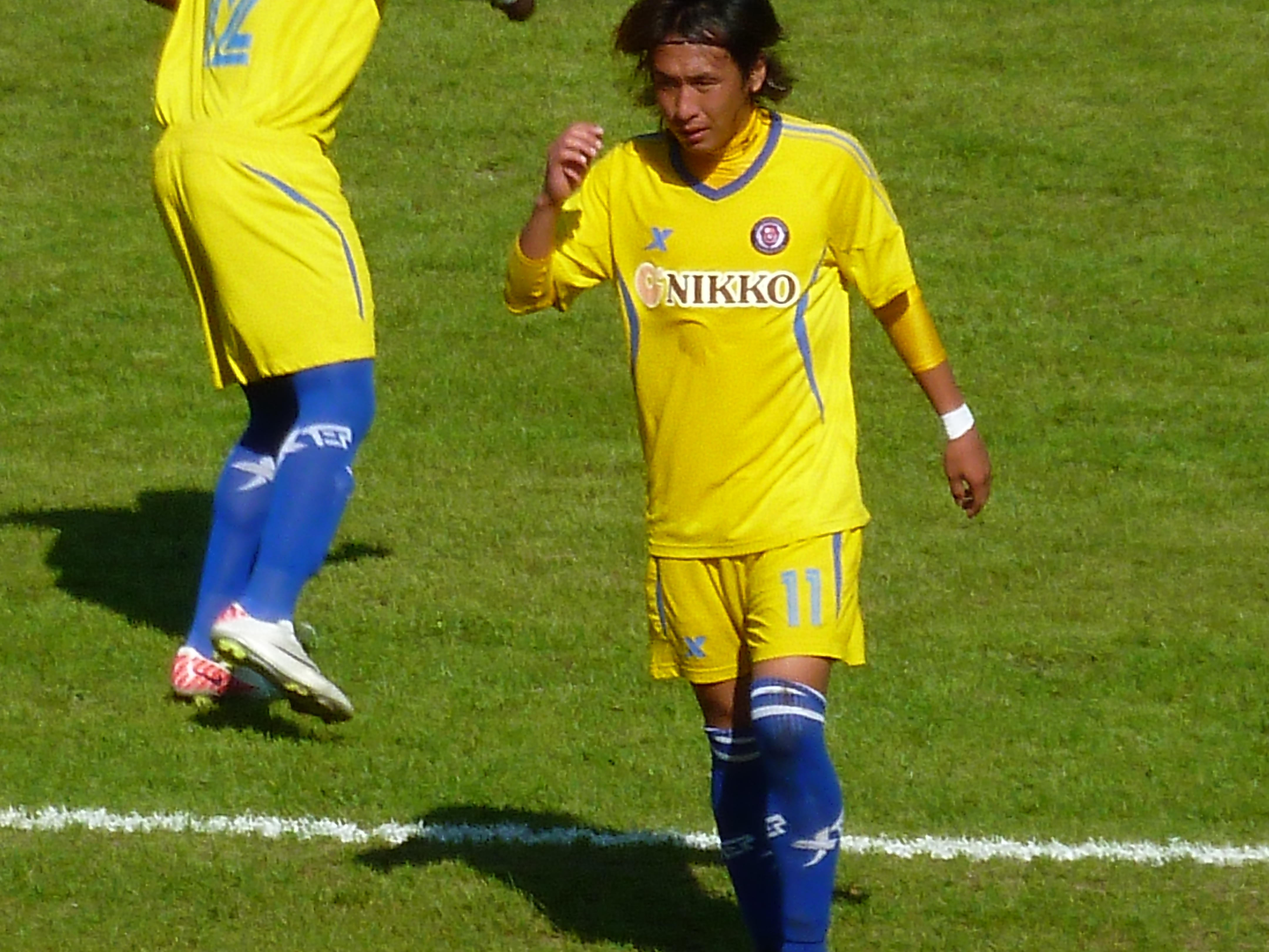 Asahi Yamamoto (18 Mar 2012 Hong Kong First Division League, Rangers vs Tuen Mun, Tsing Yi Sports Ground)